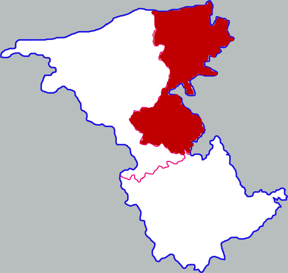 Location of Zhongning county in Zhongwei city, China